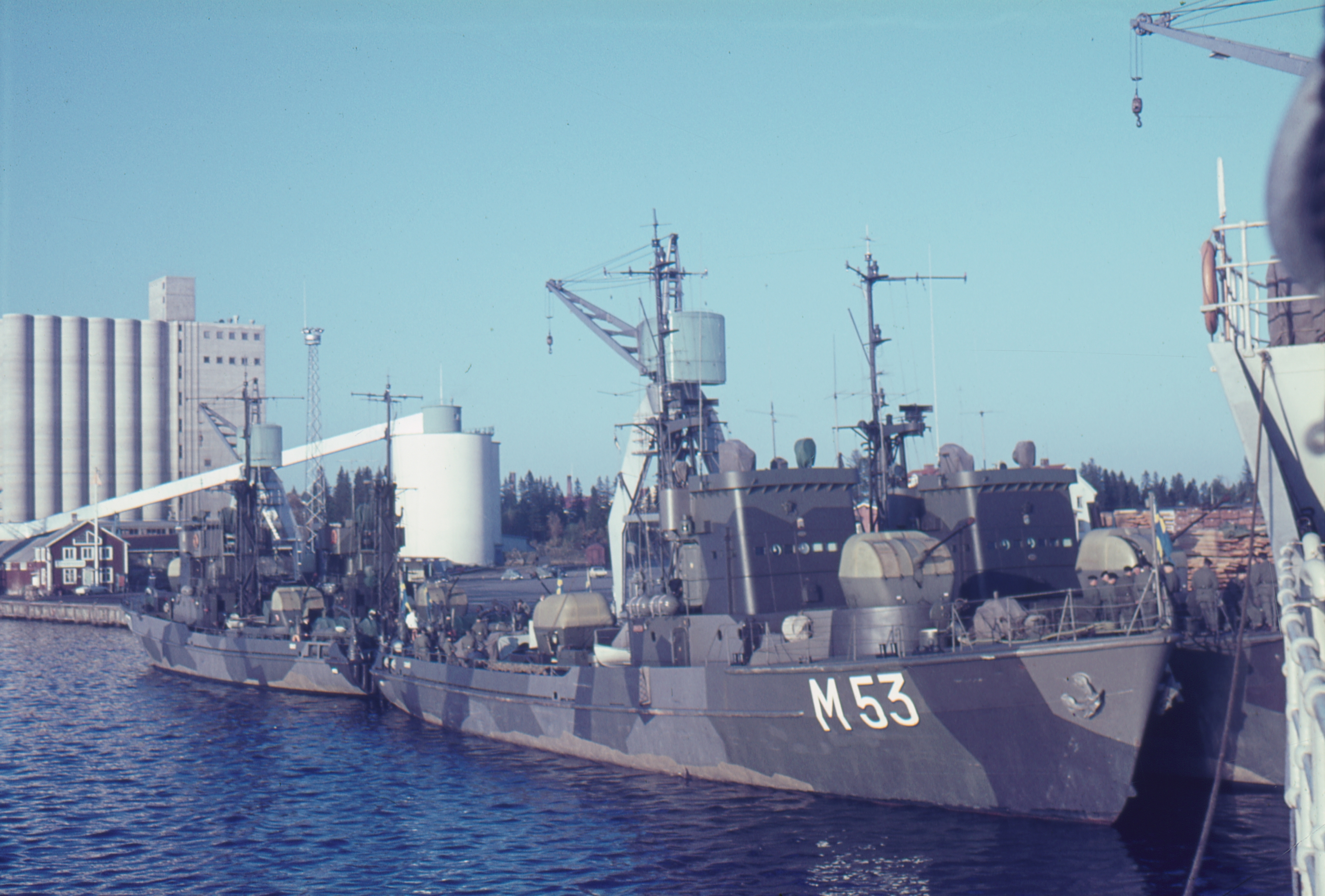 Swedish minesweeper M53 in 1965.